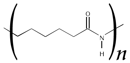 Nylon 6 Structure